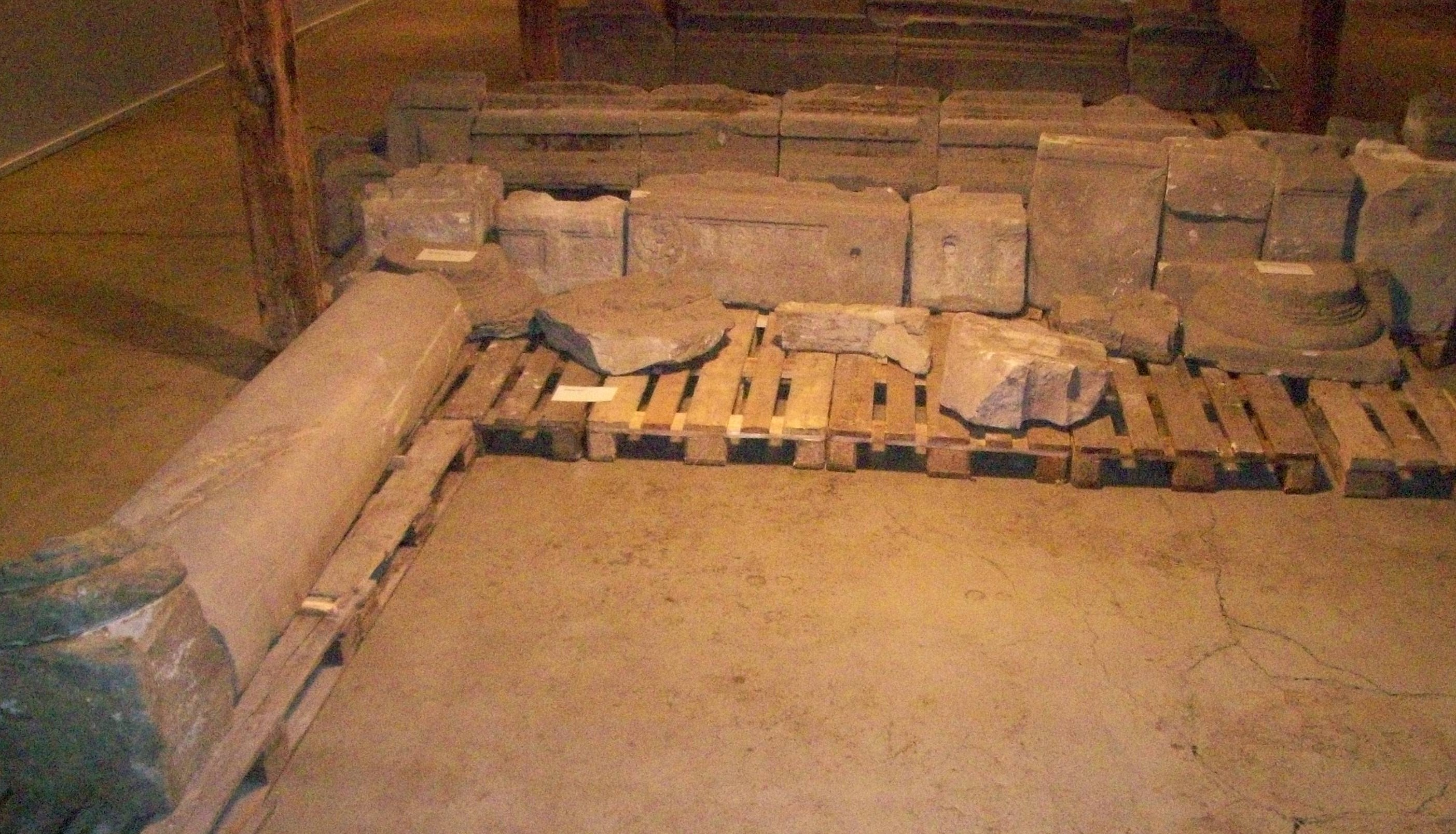 Baroque Portal elements - Old Town Hall of Halle (Saale) in Germany